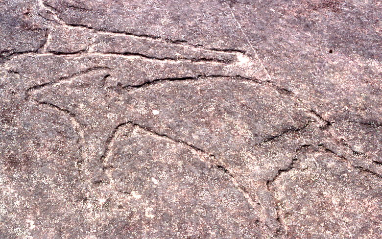 Aboriginal rock carvings, Terrey Hills, New South Wales, Sydney, photo by Sardaka 08:38, 13 November 2007 (UTC)